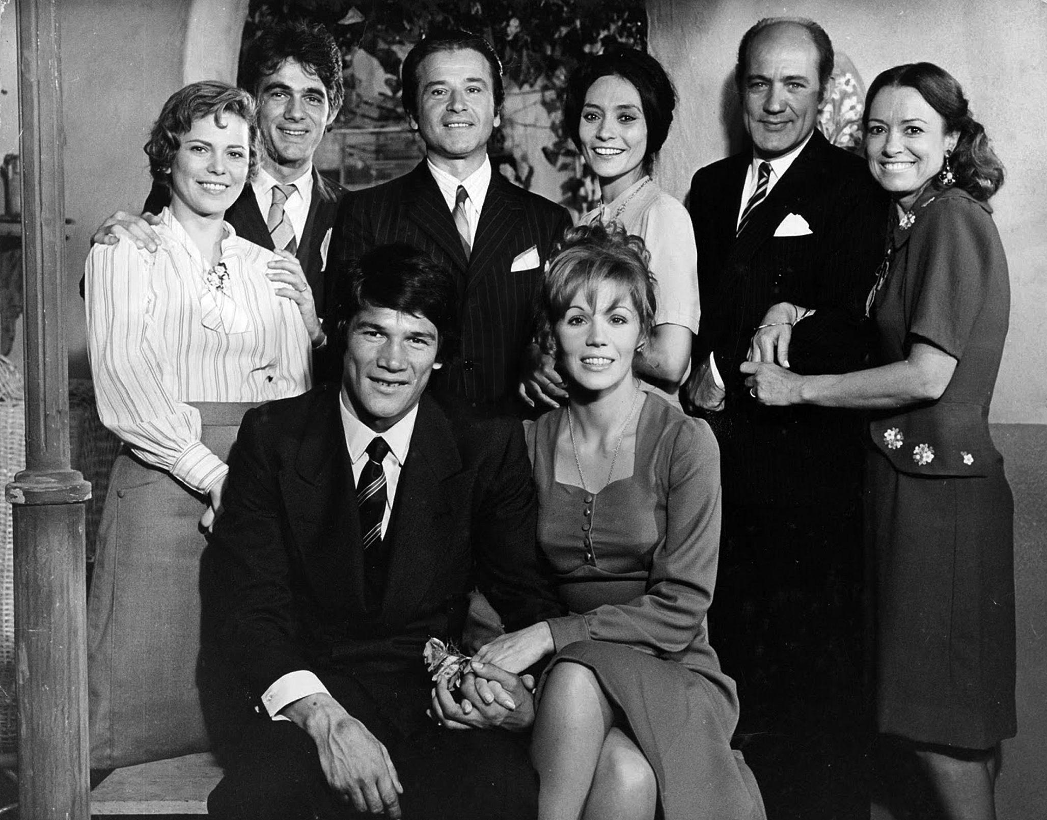 Scene on indoor with several characters of film La Mary, filmed in Argentina in 1974. Sitted: the actor Carlos Monzón and the actress Susana Giménez. Stand up and left to right, the following actors: Leonor Manso, Juan José Camero, Alberto Argibay, Dora Baret, Jorge Rivera López and Olga Zubarry.